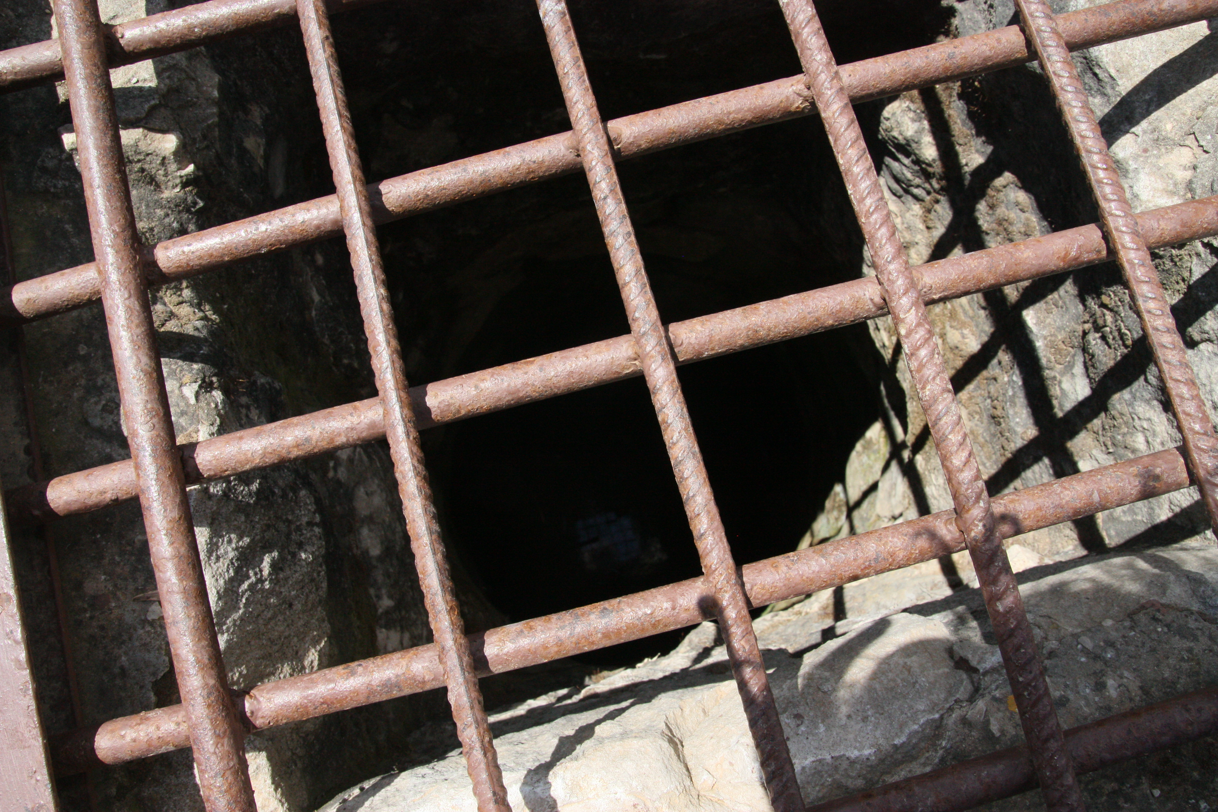 Mount Carmel